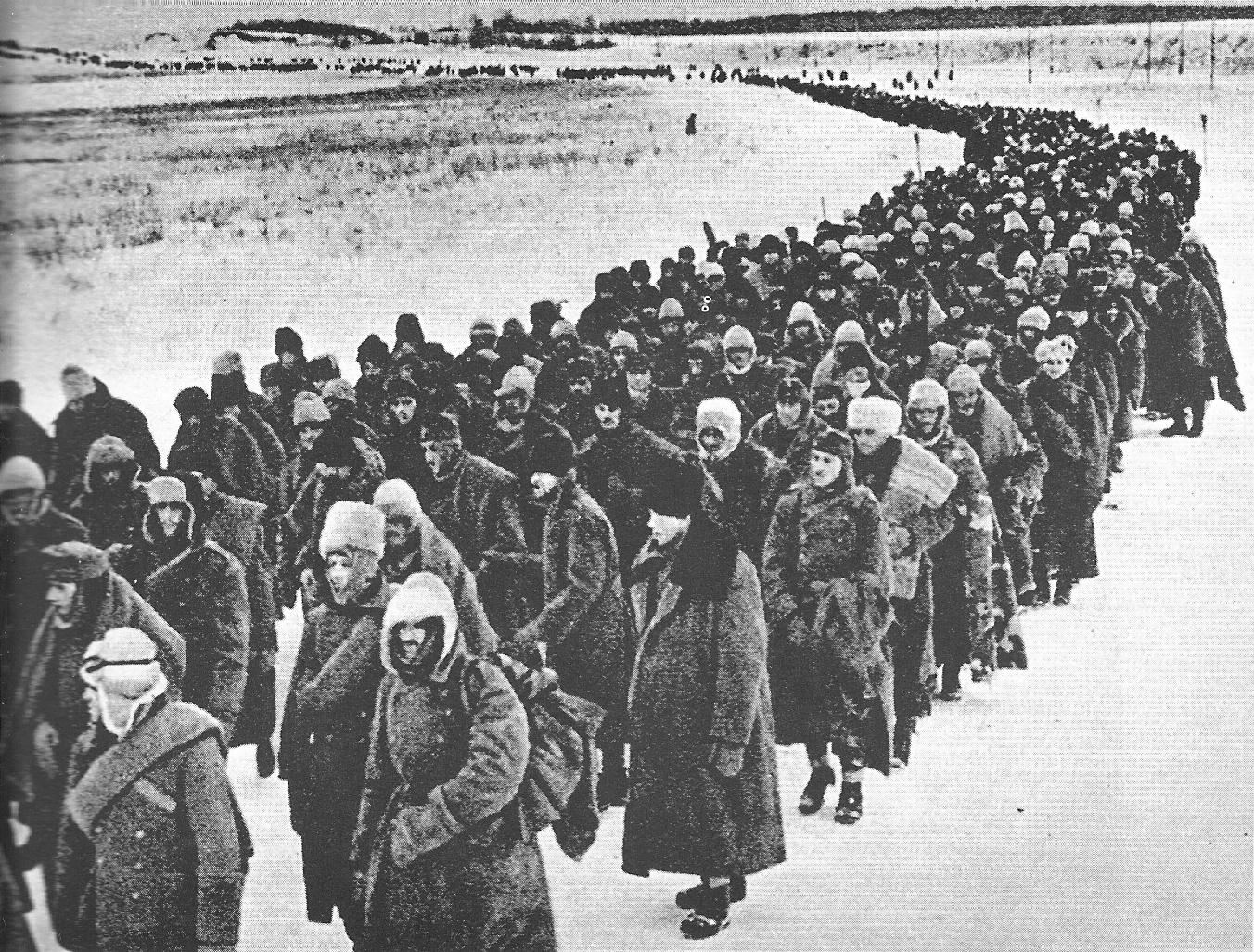 Column di Axis POW (1943)